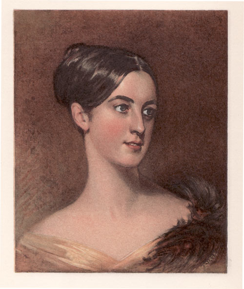 Elizabeth Wadsworth, married Charles Augustus Murray - died 8 December 1851, a sister of General James S. Wadsworth, of Geneseo